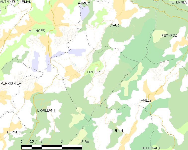 Map of French municipality Orcier